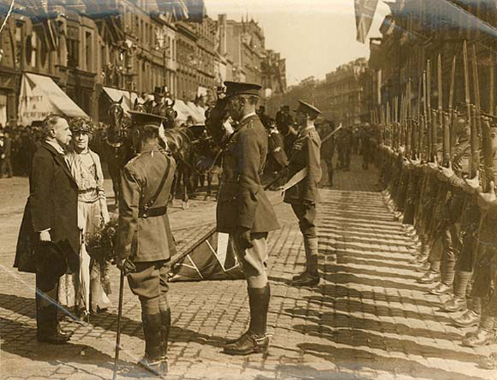 The Lord Lieutenant inspecting troops outside City Hall, Belfast on the day of the first meeting of the Ulster Parliament. Date: Thursday, 7 June 1921 NLI Ref.: HOG168